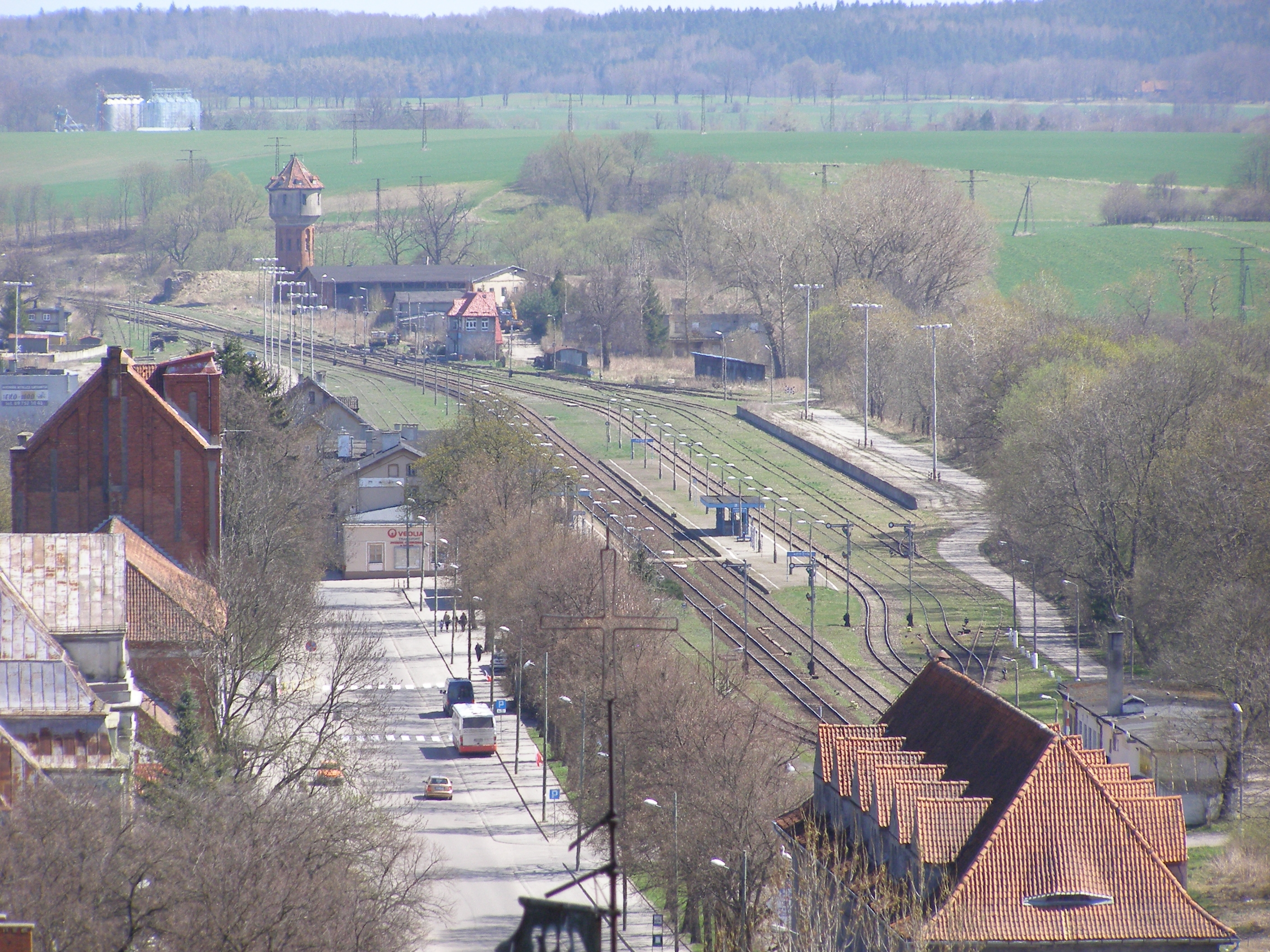 Kętrzyn - view from the St. George's basilica - railway station